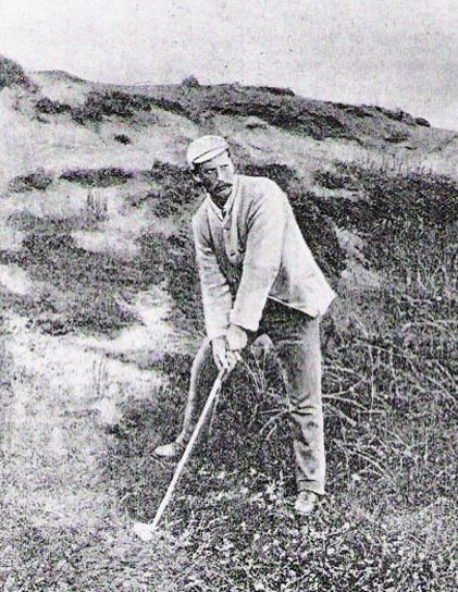 A circa 1885 photo of Scottish golf professional Willie Campbell.